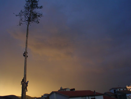 Accettura May Festival, Italy